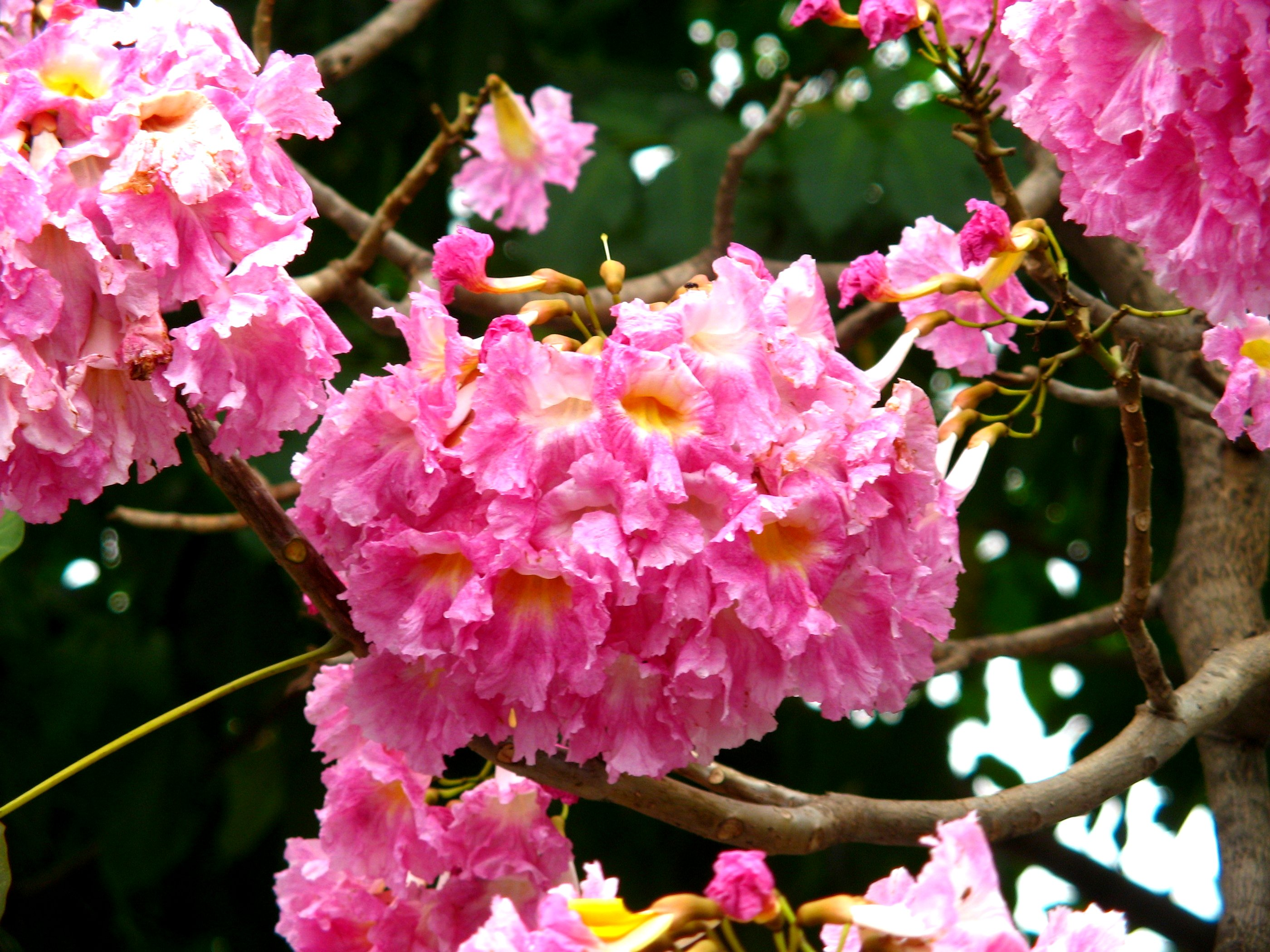 Tabebuia heterophylla